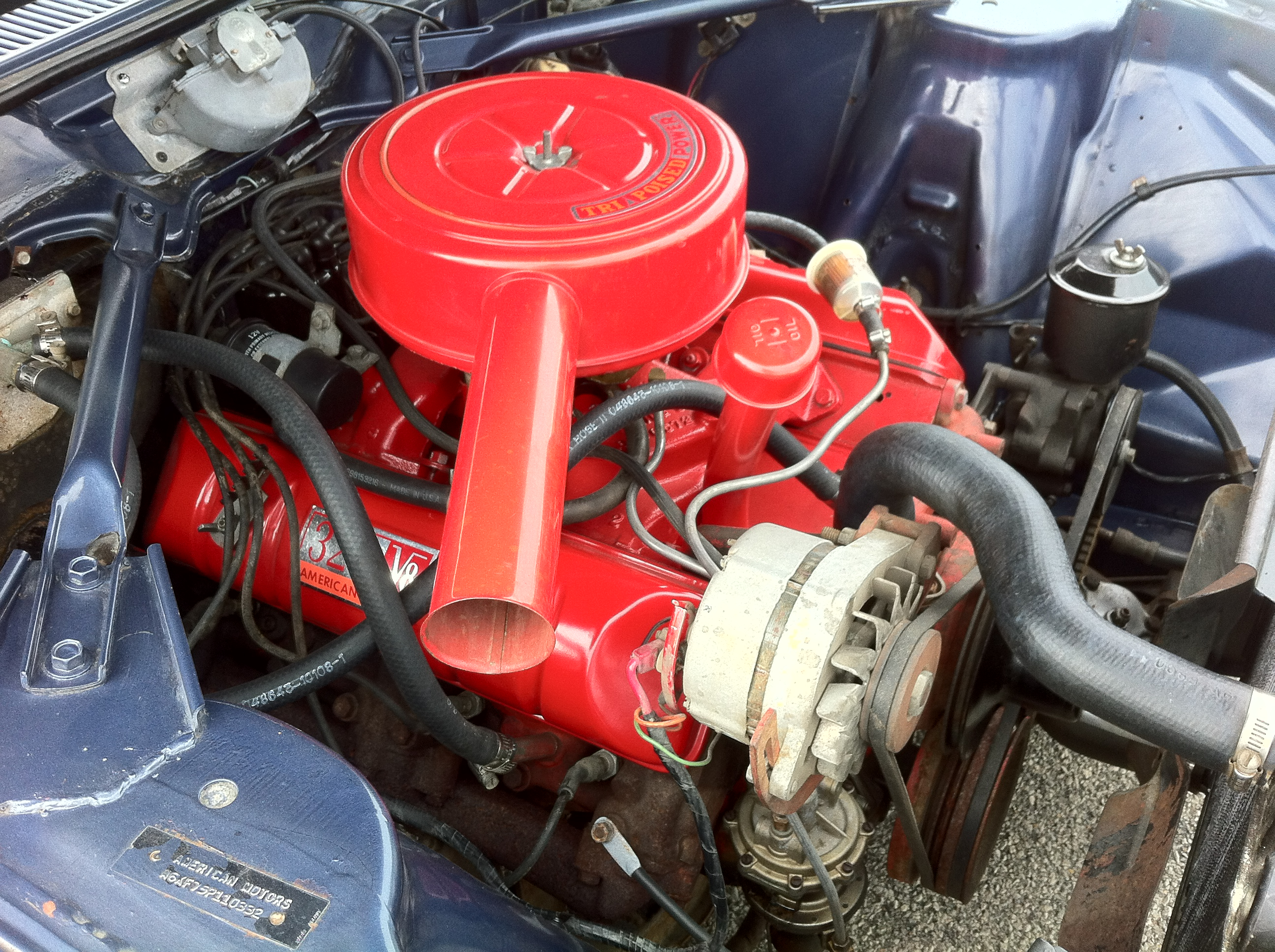 1966 AMC Ambassador 990 convertible finished in blue - right side view of the engine. A full-sized automobile built by American Motors Corporation (AMC) in Kenosha, Wisconsin. This is an all original one-owner car that was special ordered by them. Among the features on this car are its 327 cu in (5.4 L) 4--barrel carb V8 engine with a 4-speed manual transmission, center console mounted shifter with black bucket seats, as well as an AM/FM radio and an aftermarket 8-track stereo player. Picture taken at the 2012 Antique Automobile Club of America (AACA) Central Spring meet in Cedar Rapids, Iowa, USA.